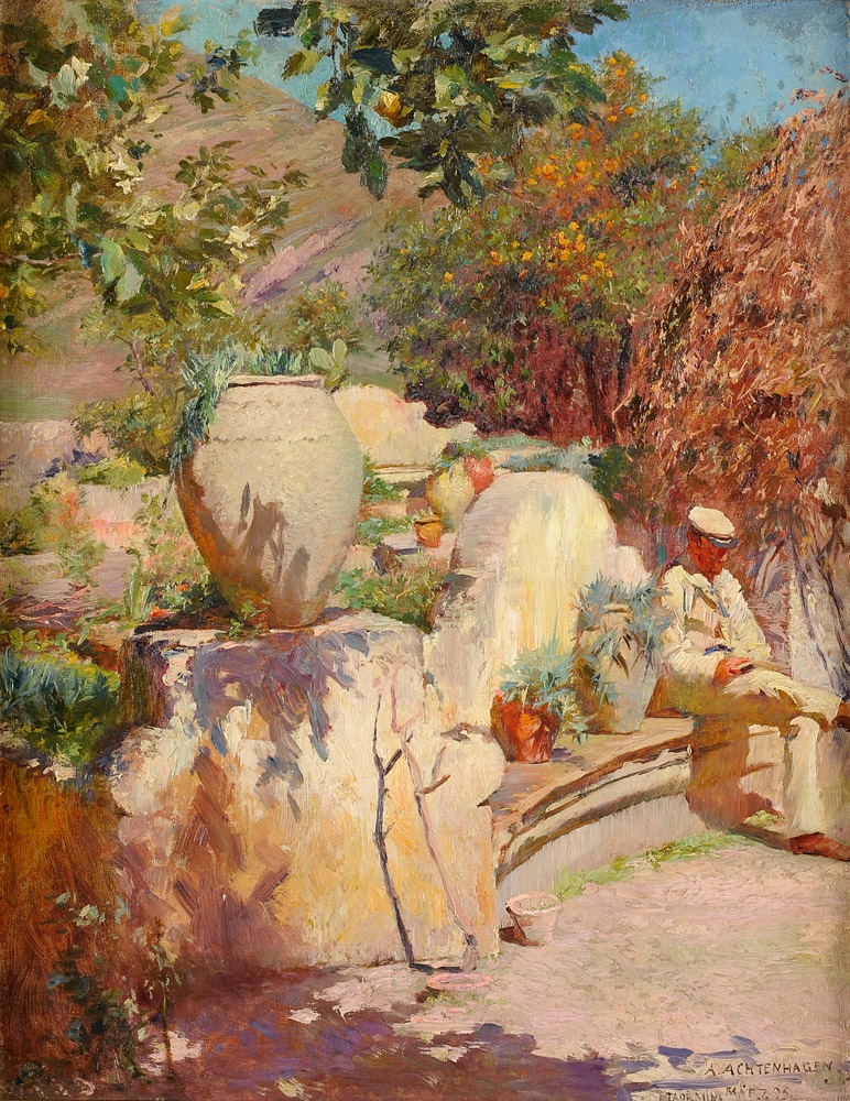 Taormina (Italy)